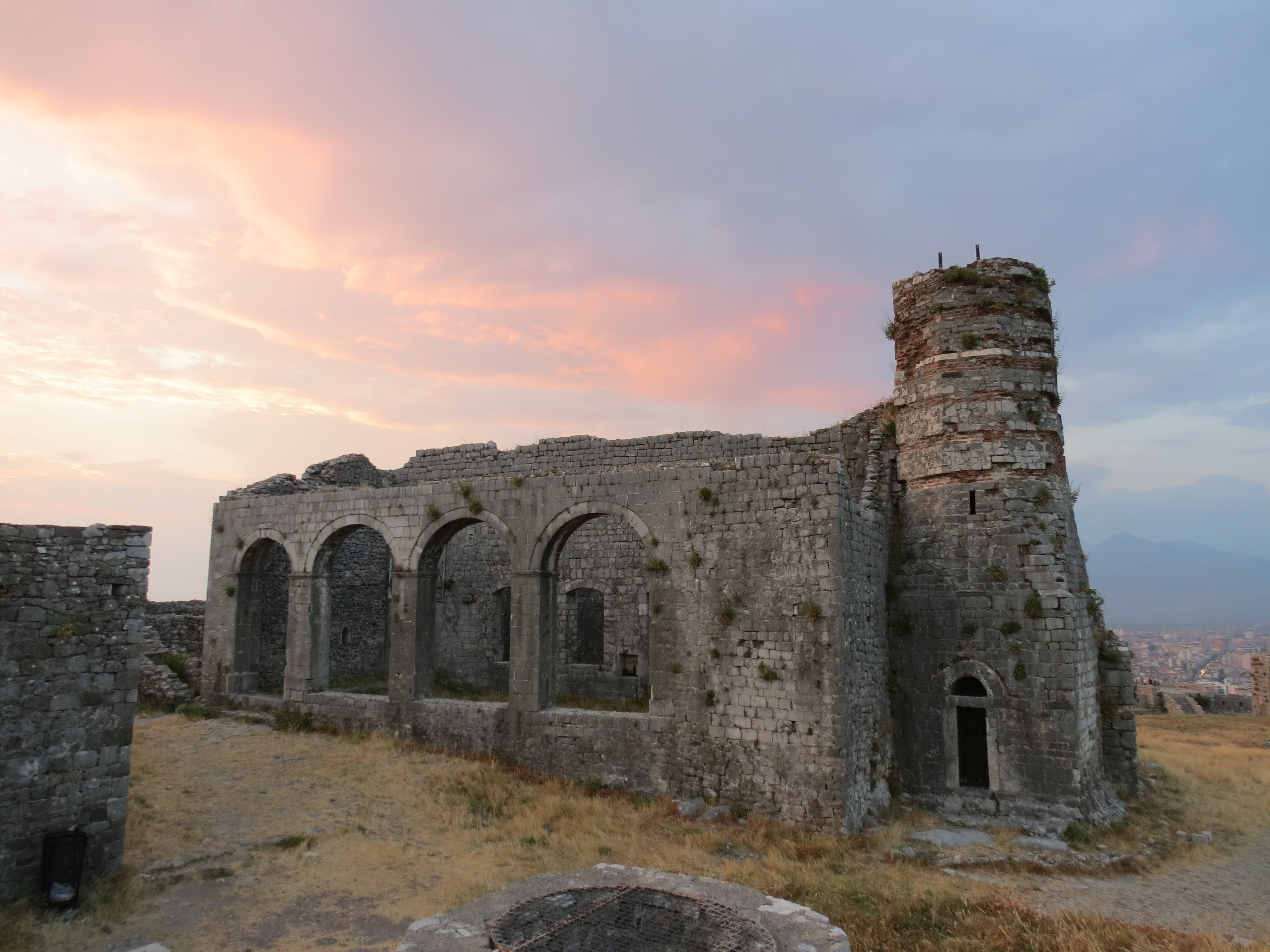 Fatih Sultan Mehmet Mosque in Rozafa Castle near Shkodra, Albania, shortly before sunset in July 2013.